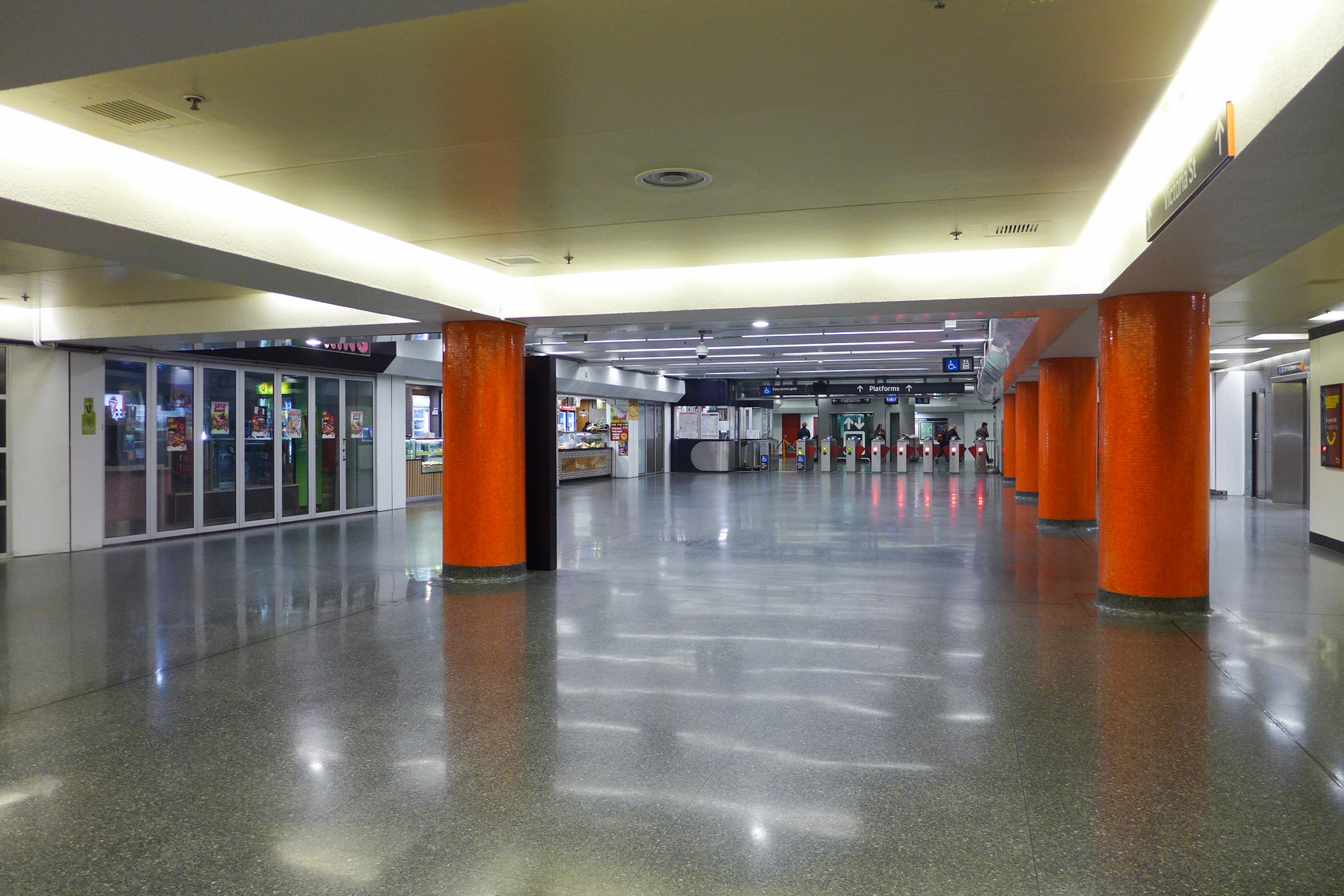 Kings Cross railway station, Sydney